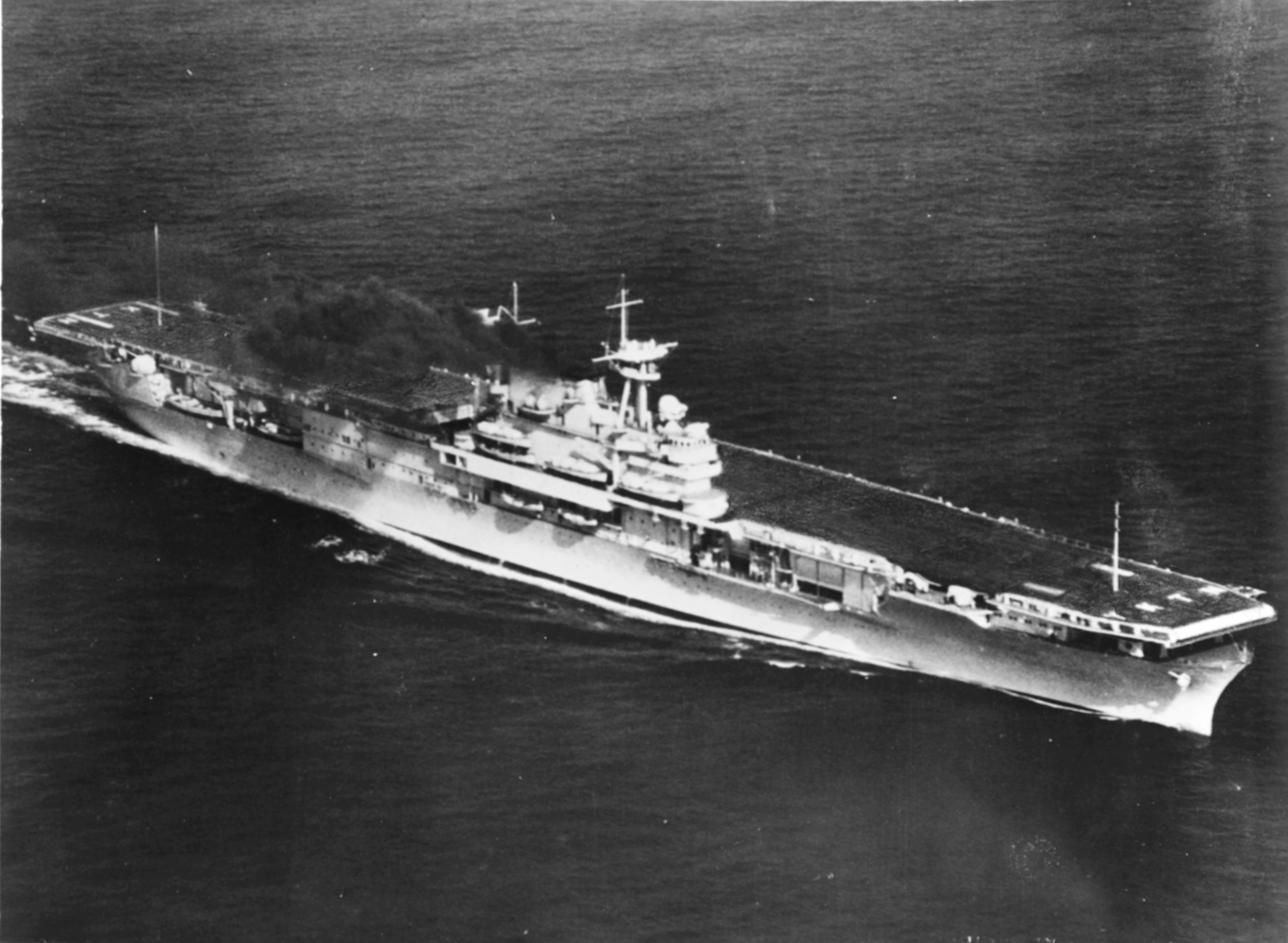 The U.S. Navy aircraft carrier USS Yorktown (CV-5) underway during builder's trials, May 1937.